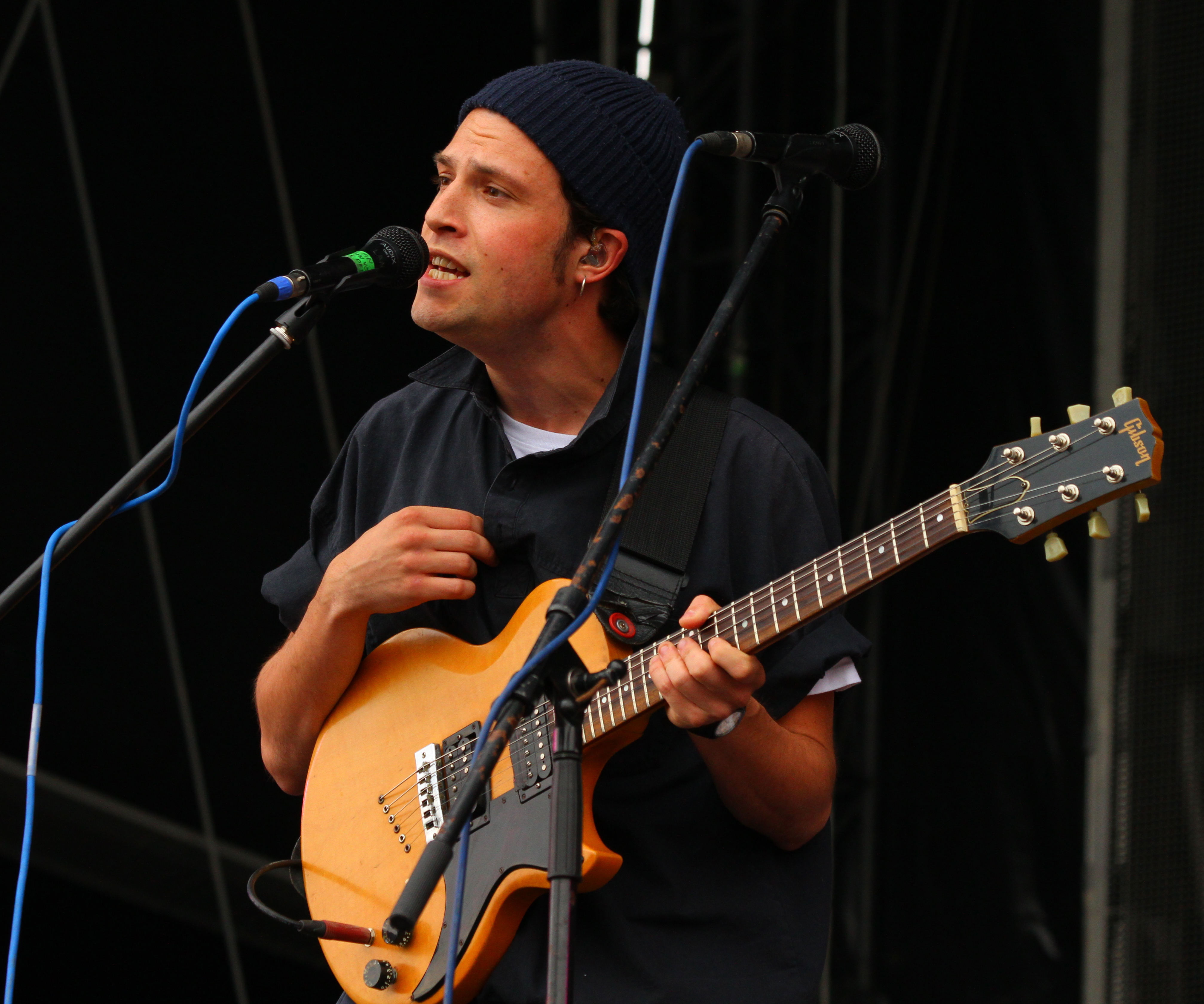 Posted via email from Globalite Magazine